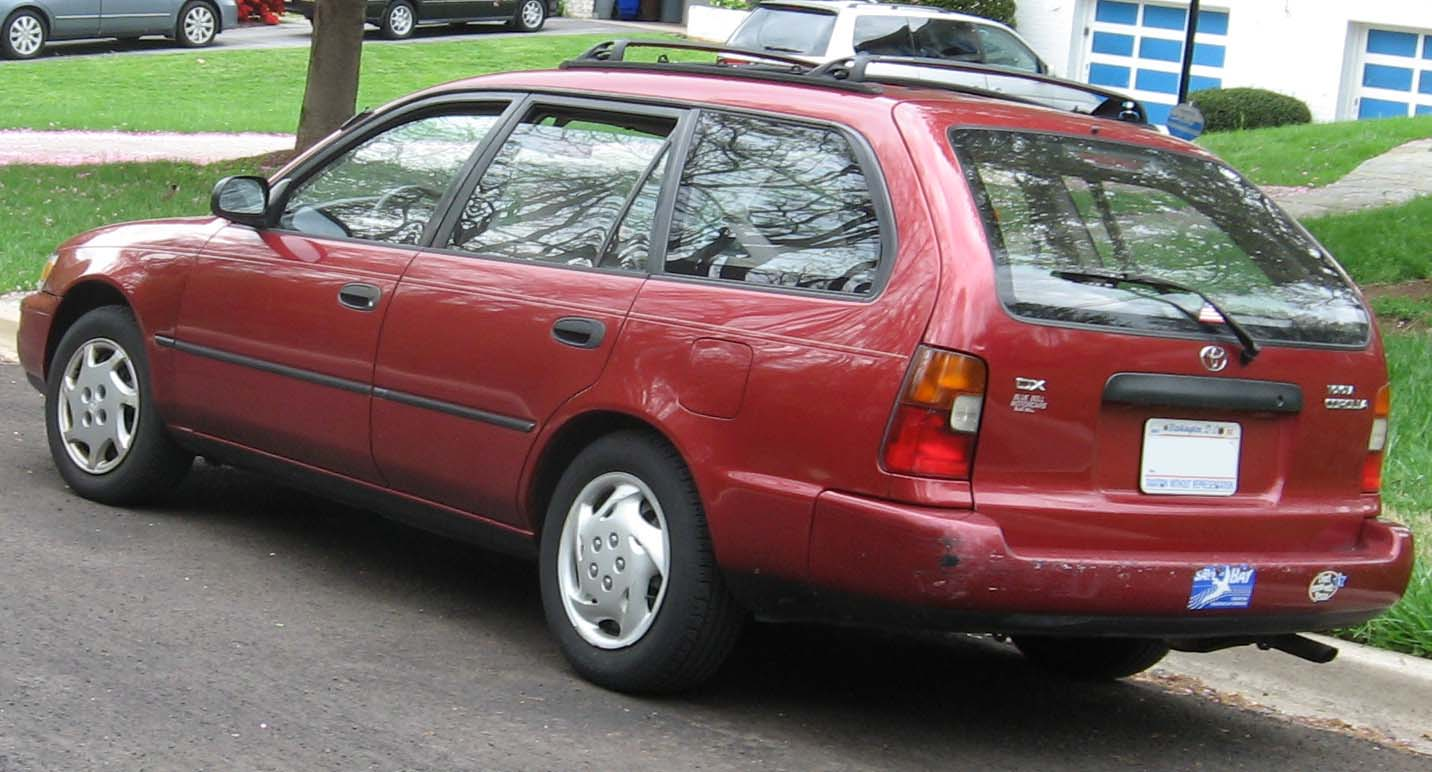 1993-1997 Toyota Corolla photographed in USA.